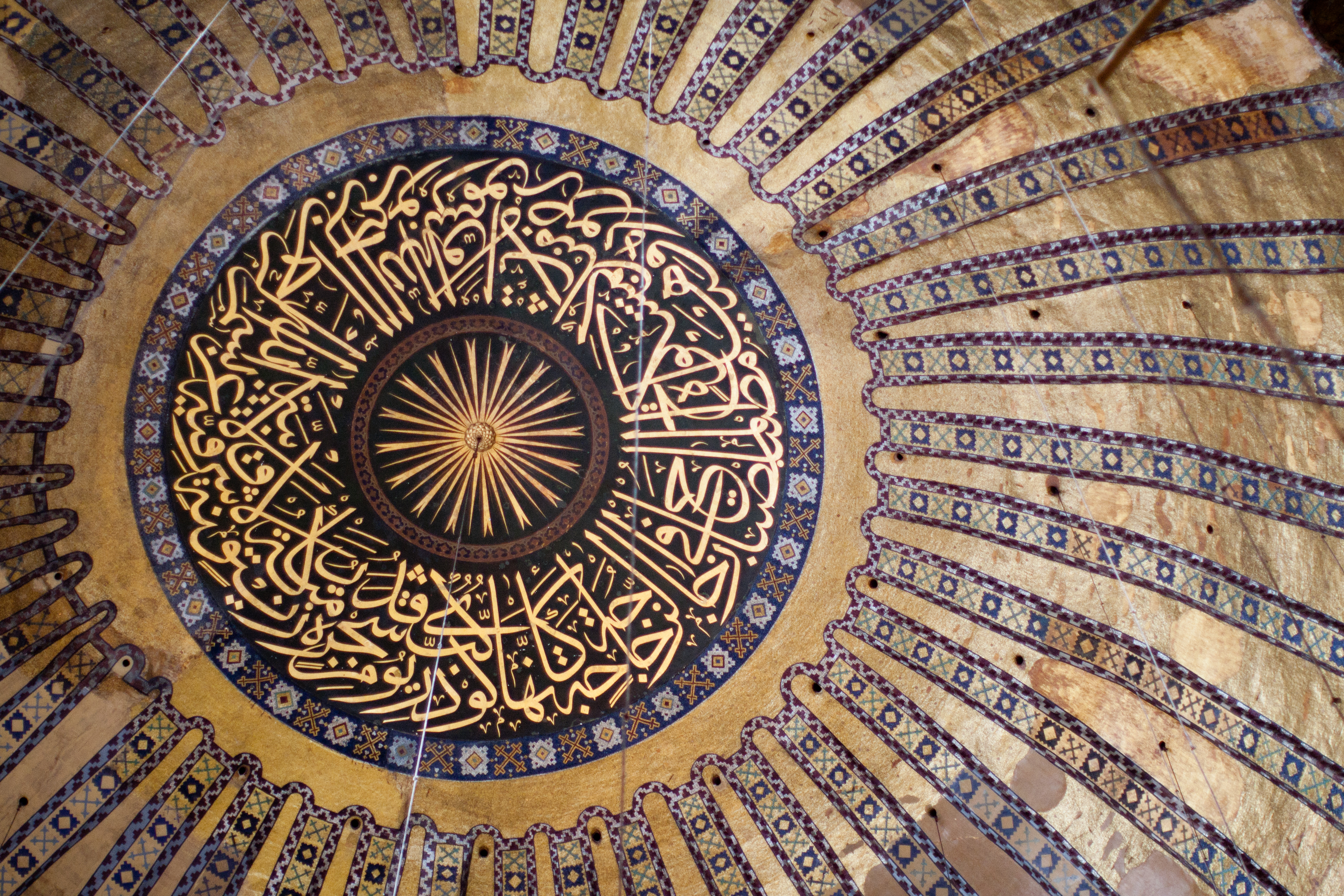 The main dome of Hagia Sophia, detail of islamic text (beginning of the verse of light).